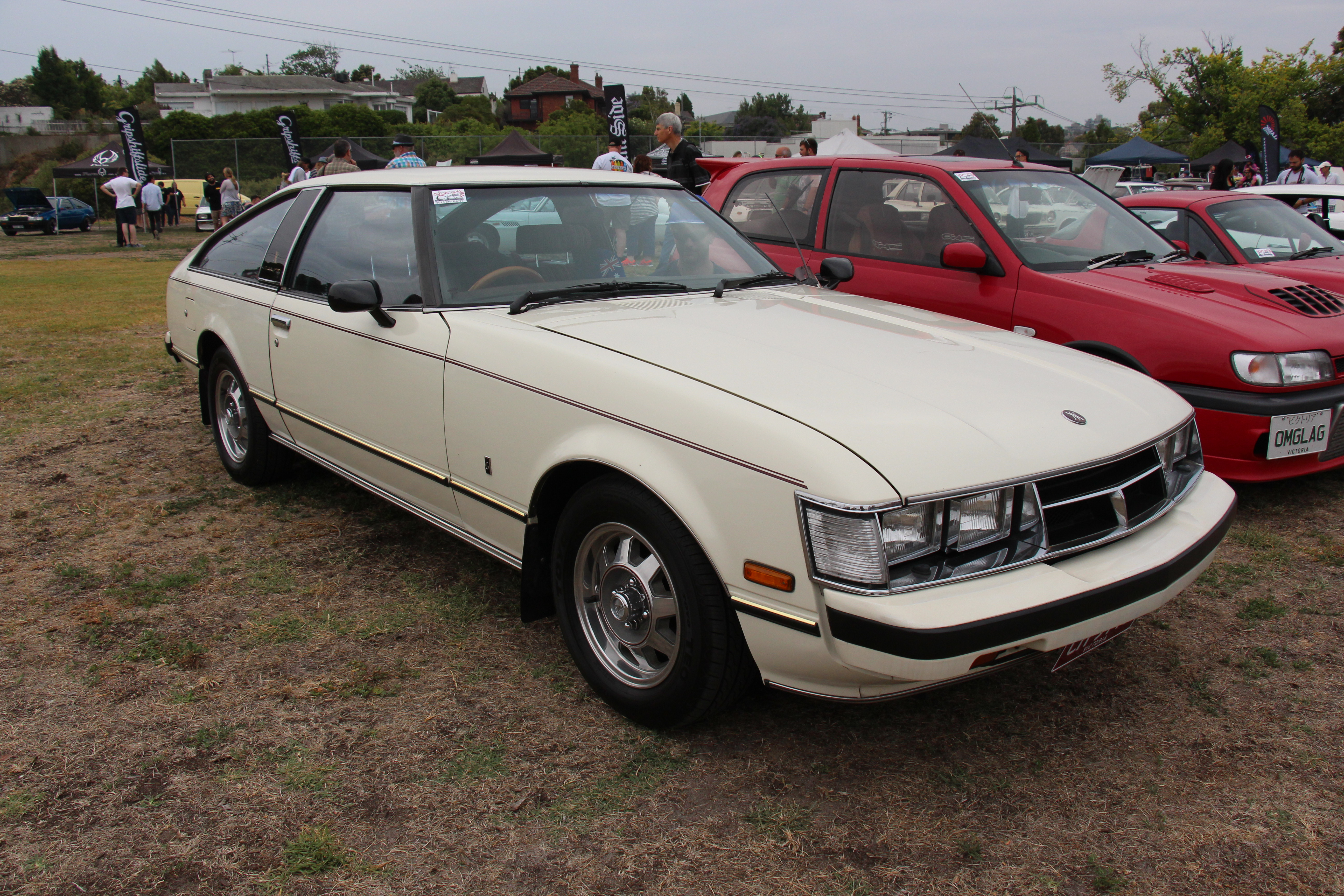 The Supra was derived from the Celica, but it was longer and wider, the first 4 generations got a 6 cyl engine (standard Celicas were 4 cyl) The Supra was built from 1978-2002, from 1986 the Celica name was dropped, now just Toyota Supra. The first generation was the A40 built from 1978-81. The doors and rear section were shared with the Celica liftback, but the front panels were elongated to accommodate the 6 cyl In 1979 the rear view mirrors were redesigned and alloy wheels replaced steel In 1980 engine displacement was increased to 2759cc (before was 2563cc)